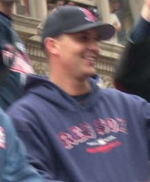 Keith Foulke of the Boston Red Sox during the 2004 World Series victory parade in Boston